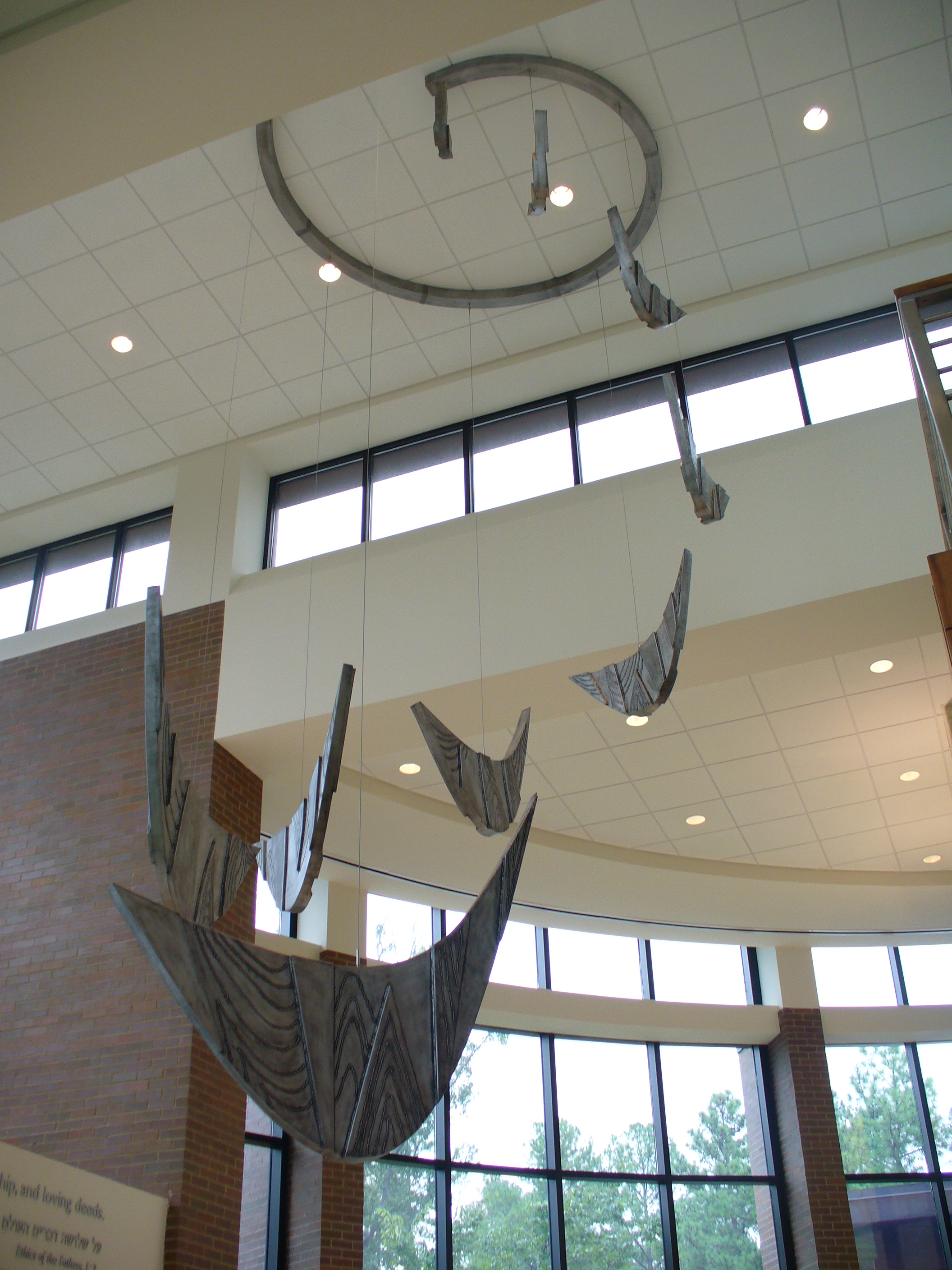 Image of "Wings to the Heavens", 2008, Fabricated and brazed aluminum, Temple Israel, Memphis, Tennessee, Kinetic Mobile Sculpture by artist David Ascalon with designer Brad Ascalon, and assistance by Eric Ascalon.